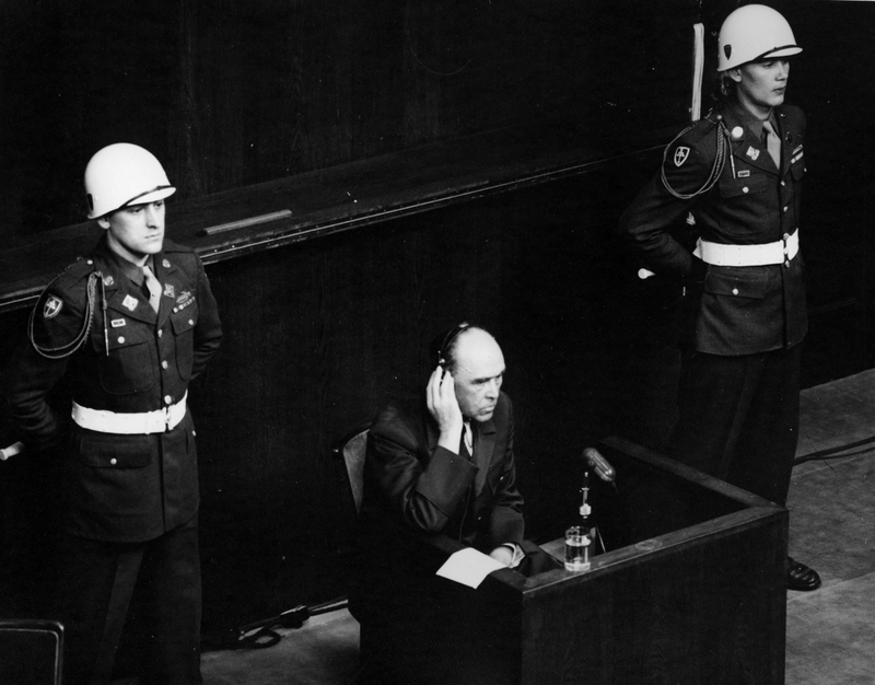 Field Marshal Albert Kesselring, a witness, testifying at the Nuremberg War Crimes Trials.